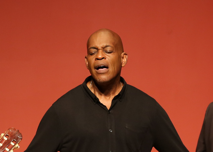 Jubilant Sykes works with Angelo Silva, accompanied by Joe Hertz